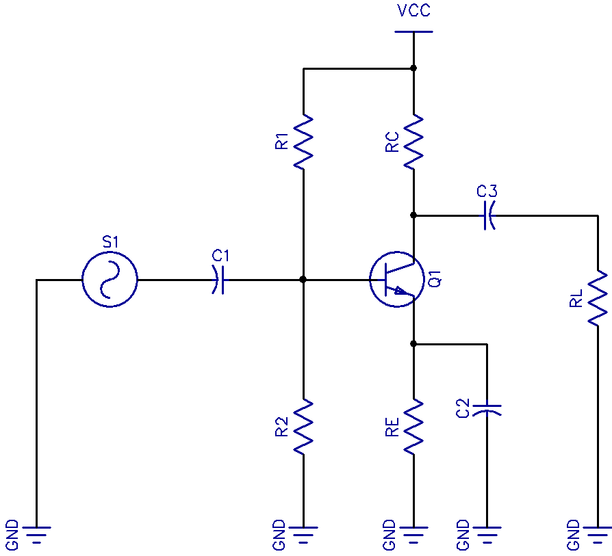 A common-emitter amplifier with voltage-divider bias and coupling capacitors C1 en C3 on the input and output and a bypass capacitor C2.